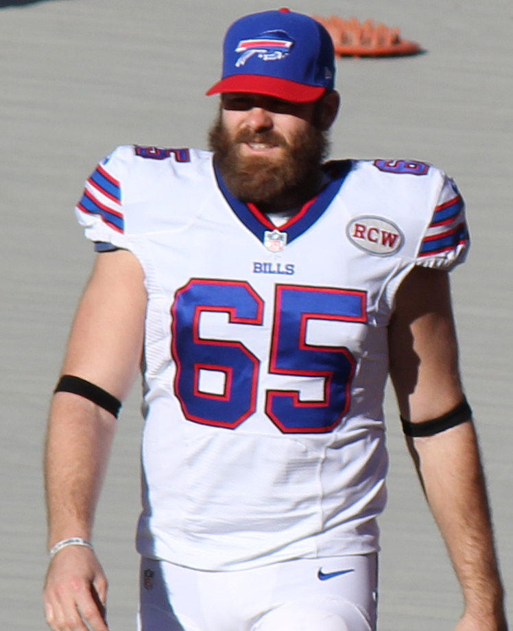 Garrison Sanborn, a player on the National Football League.